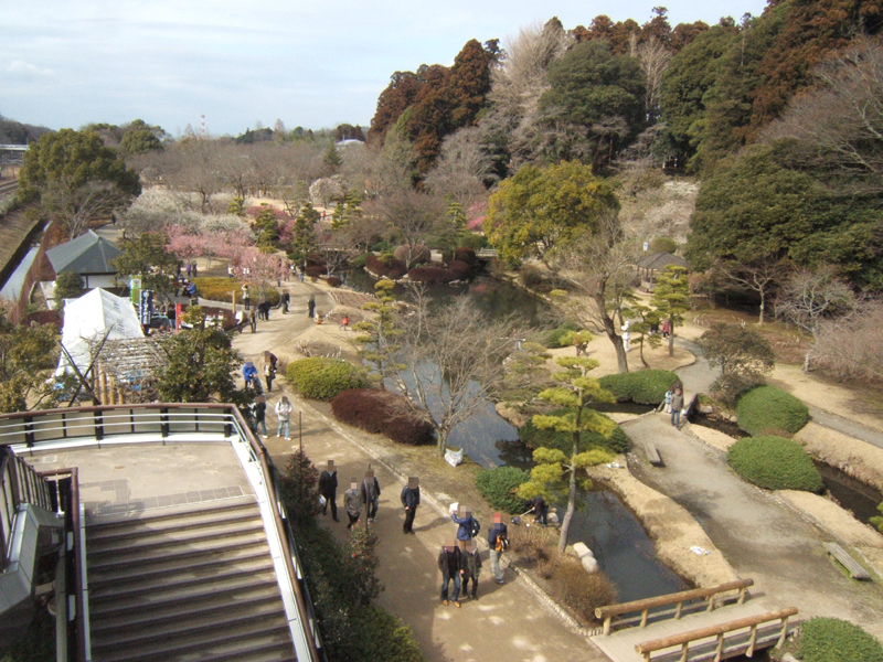 Kairaku-en south garden, view form baiou-bashi Footbridge. Mito, Ibaraki, Japan.